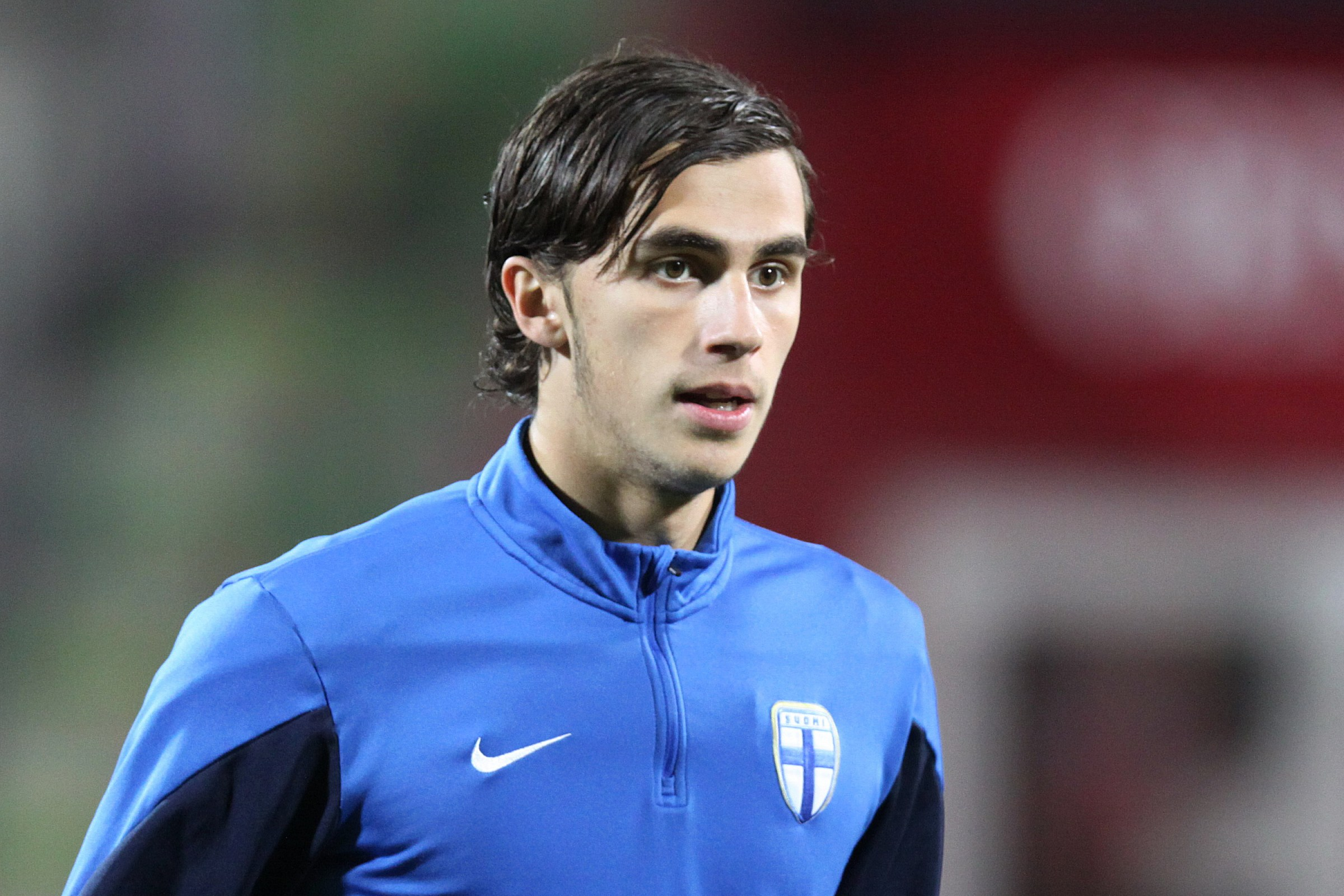 2017 UEFA European Under-21 Championship qualification – Austria U-21 (red shirts) vs. :en:Finland national under-21 football team |Finnland U-21 (blue shirts) 2-0 (0-0) – 2015-11-13 in Vienna, Austria Arena – The photo shows Armend Kabashi.